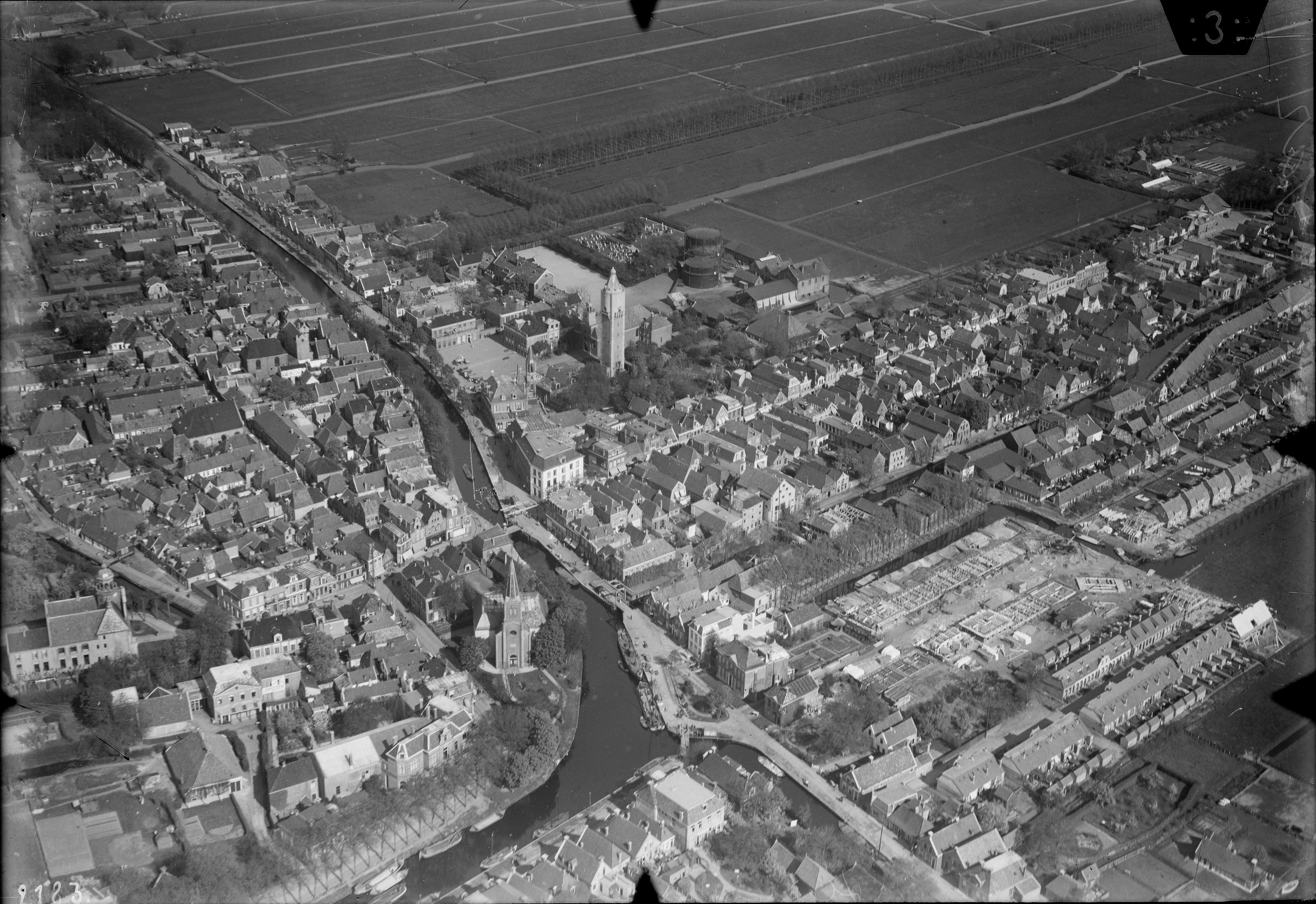 Aerial photograph of Heerenveen, The Netherlands